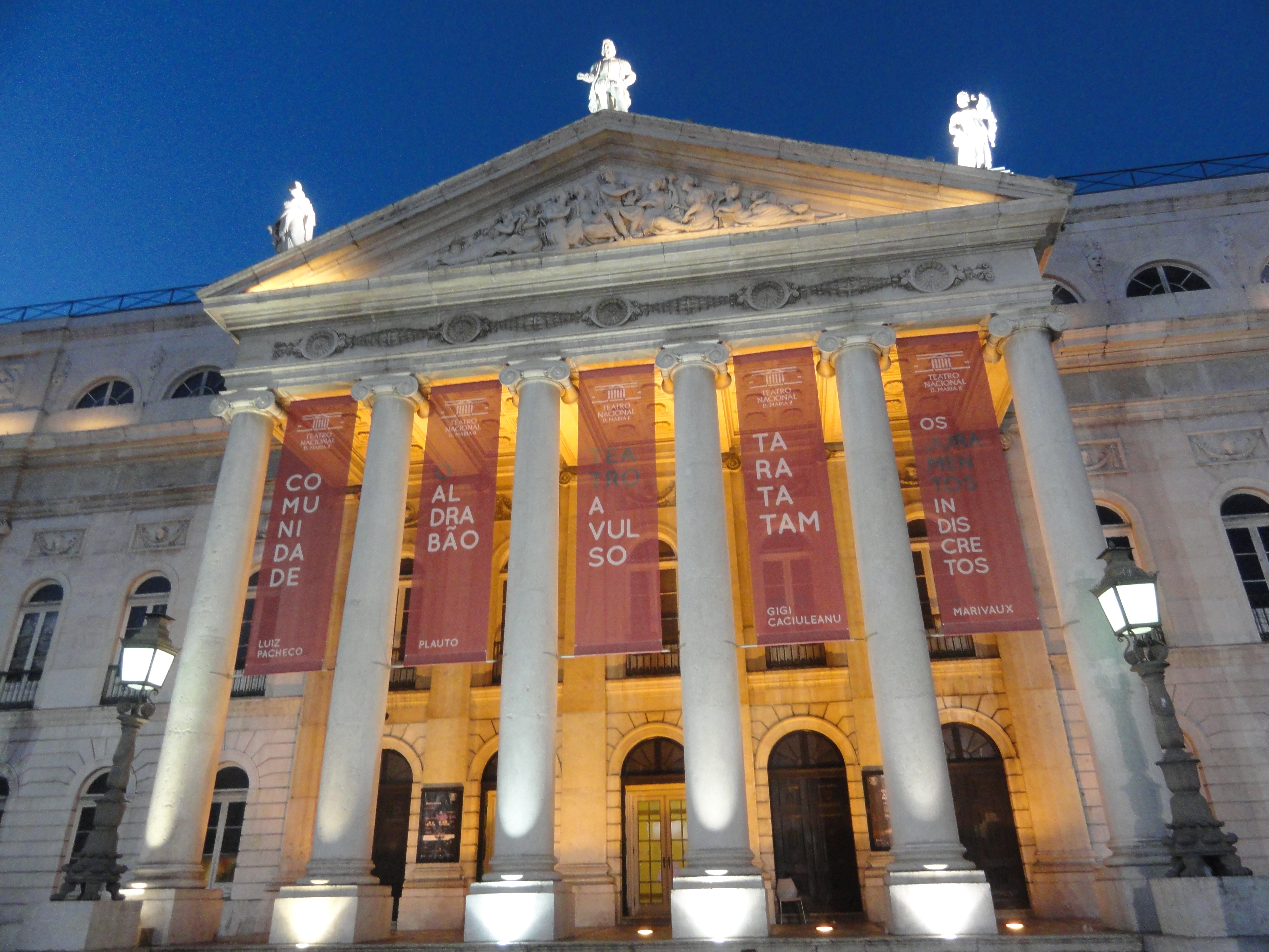 Theater in Lisbon